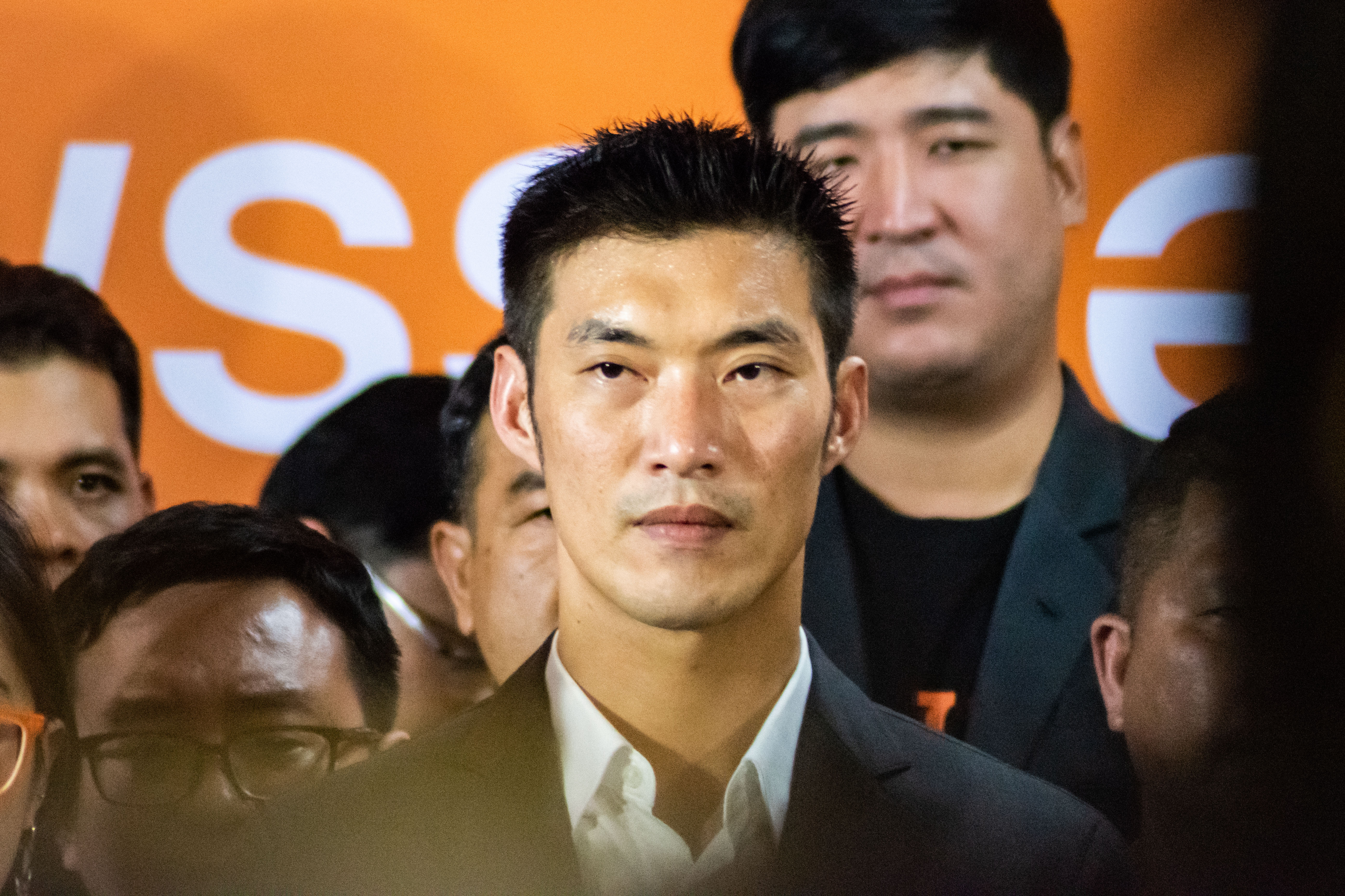 Thanathorn Juangroongruangkit, Leader of Future Forward Party